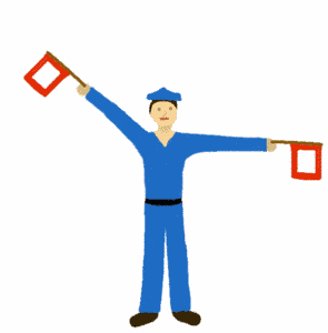 Letter Y of the nautical semaphore flag signalling system Source: Martin Hawlisch (User:LosHawlos) My own drawing done in gimp First uploaded to de: in jun-2004